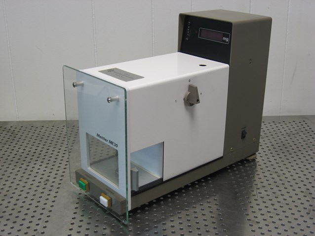 If using this image Images from listings on our website in the laboratory, medical and bioprocessing section. See a range of lab, medical and biomedical equipment from across the globe on our site.